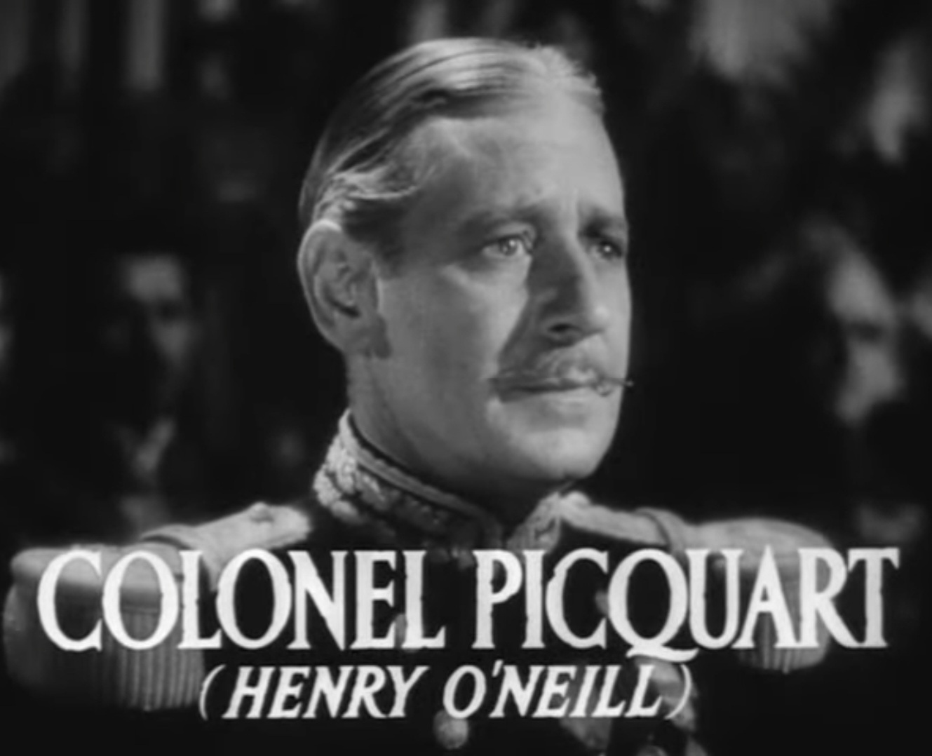 Henry O'Neill in The Life of Emile Zola - trailer (cropped screenshot)